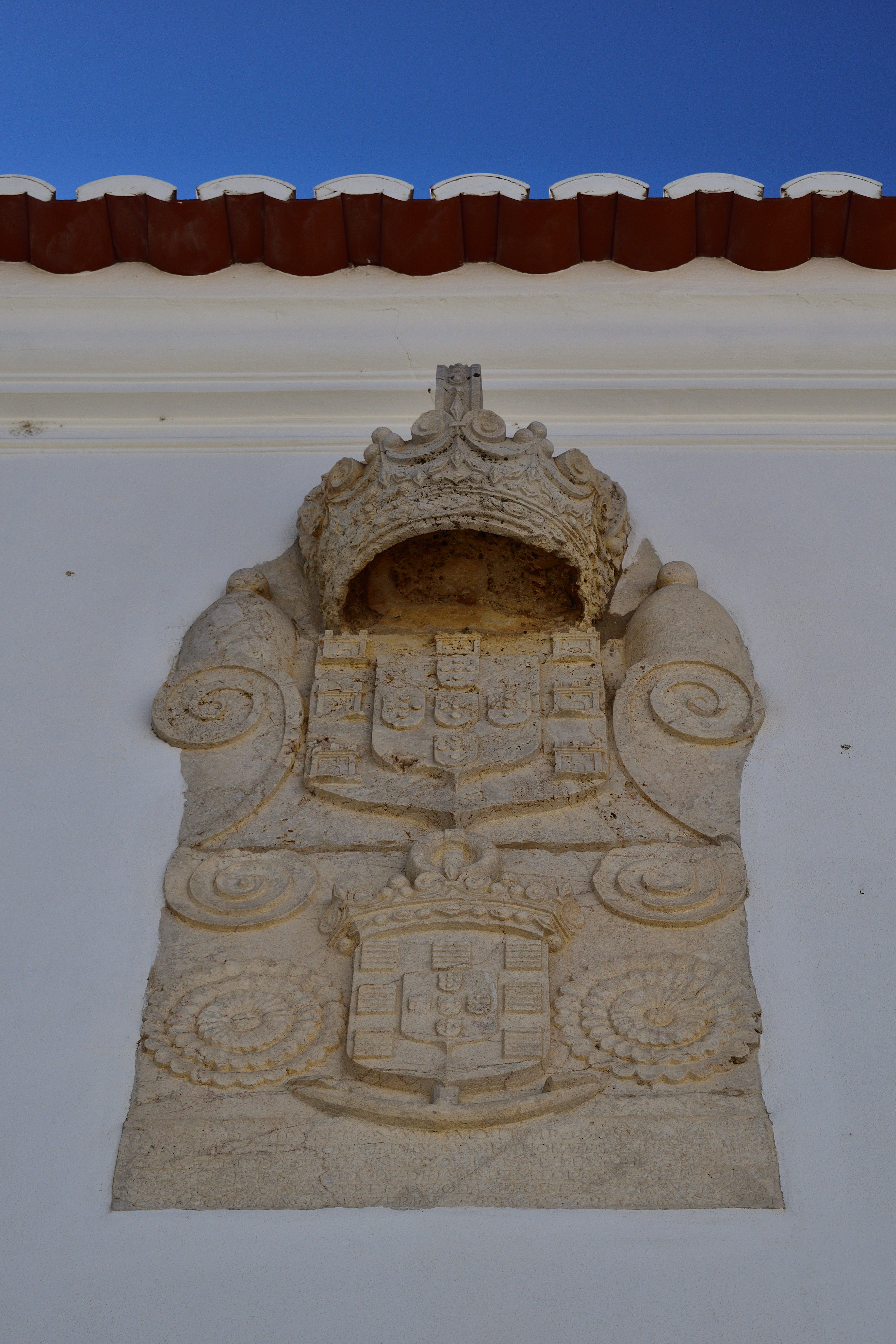 Coat of Arms of the Slave Market in Lagos, Algarve - Southern Portugal.